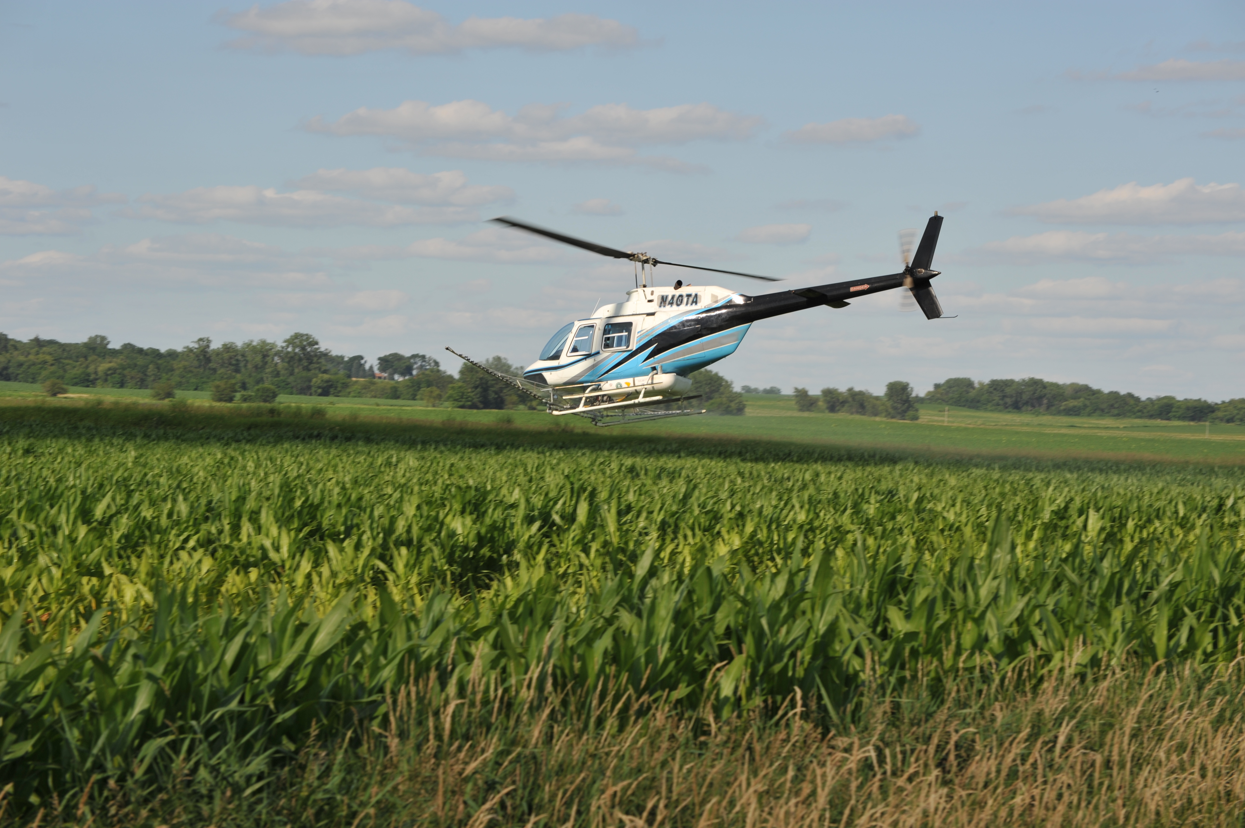 Helicopter crop dusting, Polk County, Iowa, USA. Ran into this guy on my way home from work tonight.